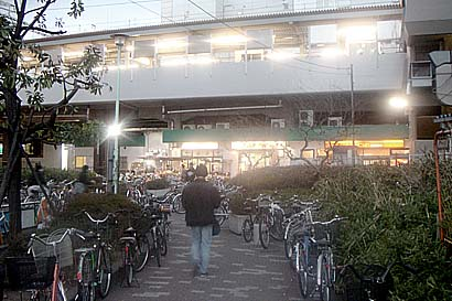 Sazaka station foto from japanese Wiki